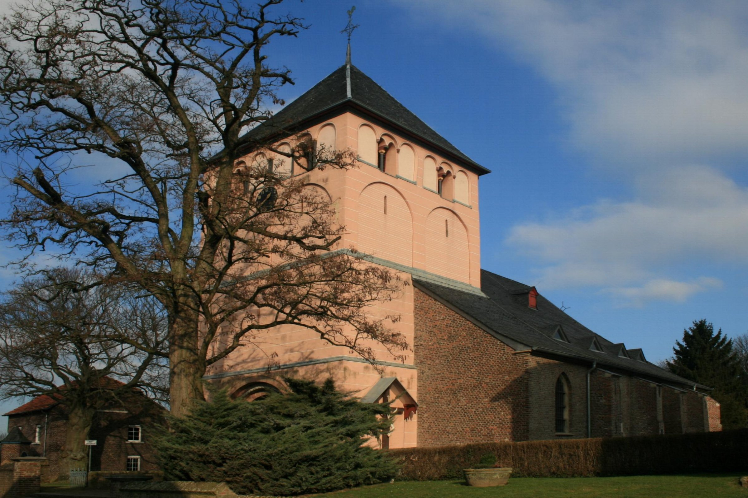 Cultural heritage monument No. 66 in Jülich